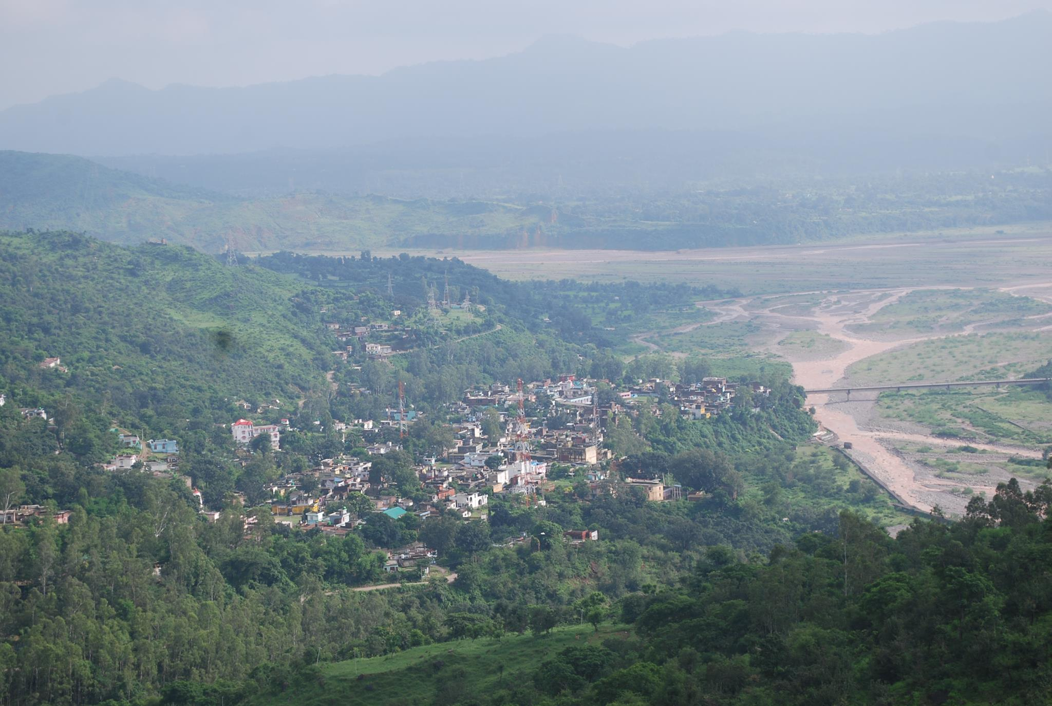 A view of Billawar town from Gortha village.